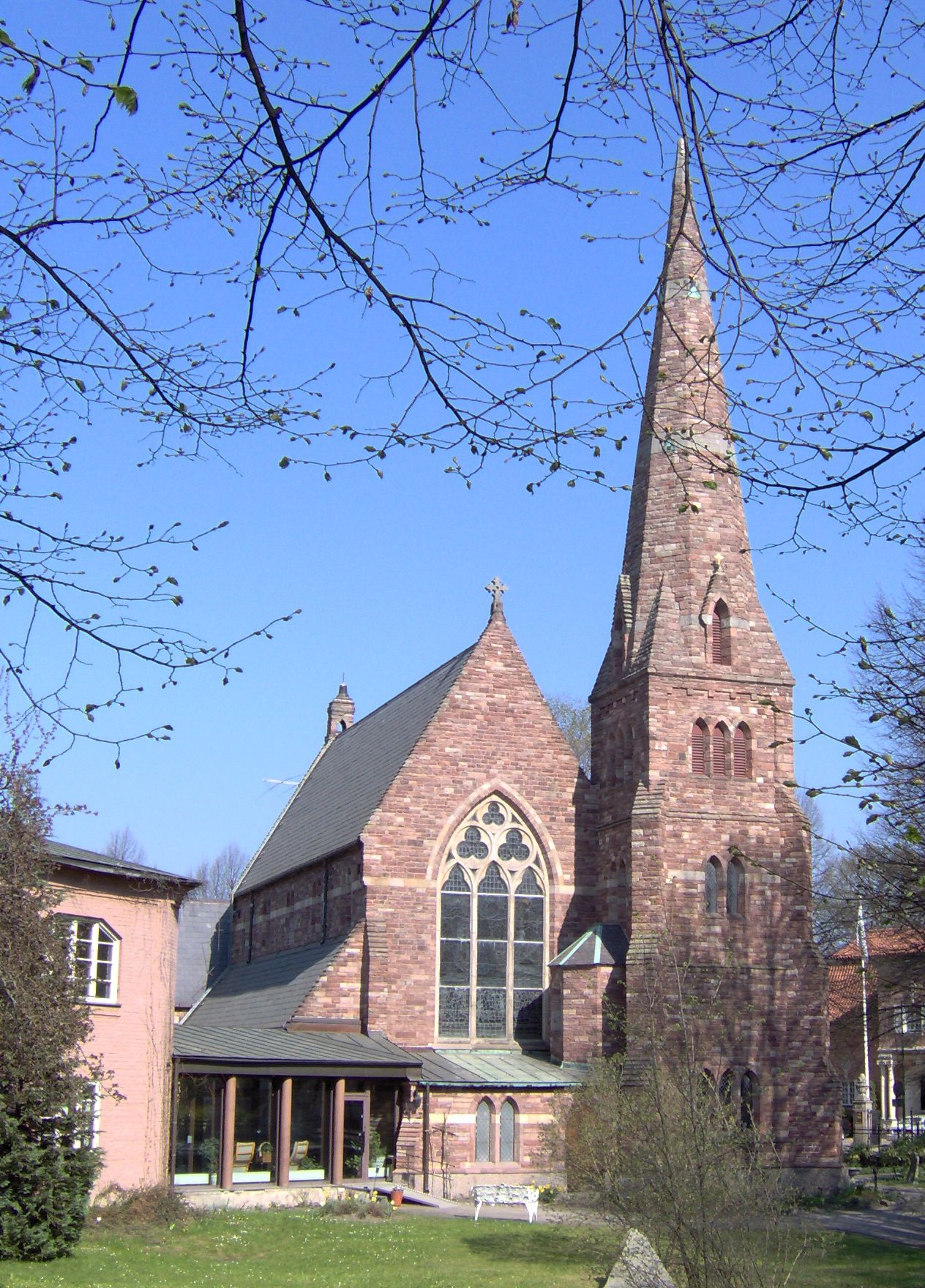 English church in Stockholm Sweden 2006.